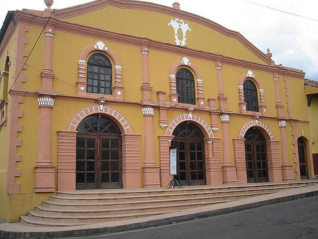 Building in León, Nicaragua